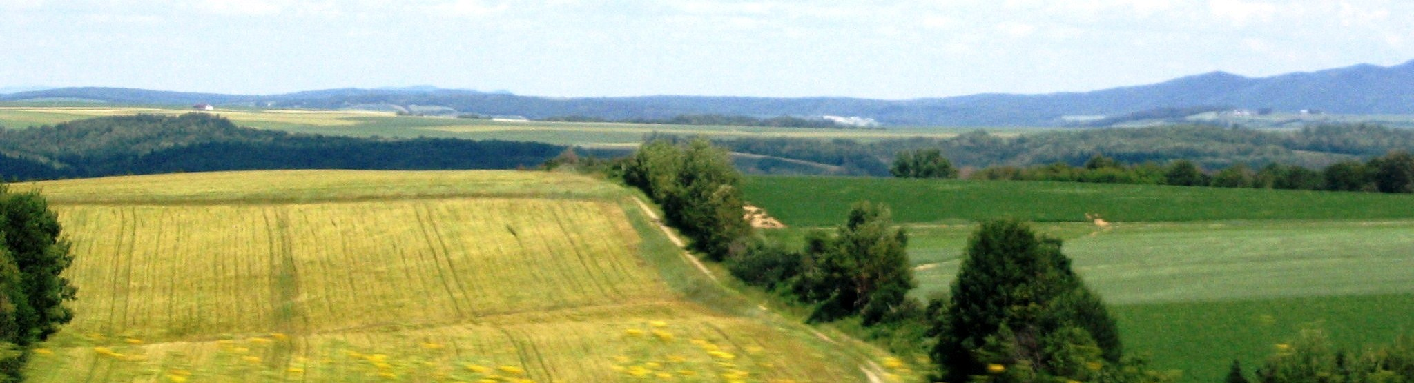 Victoria County, New Brunswick. Picture probably taken near Aroostook. The picture have been modified to remove electric wires and bad lighting.